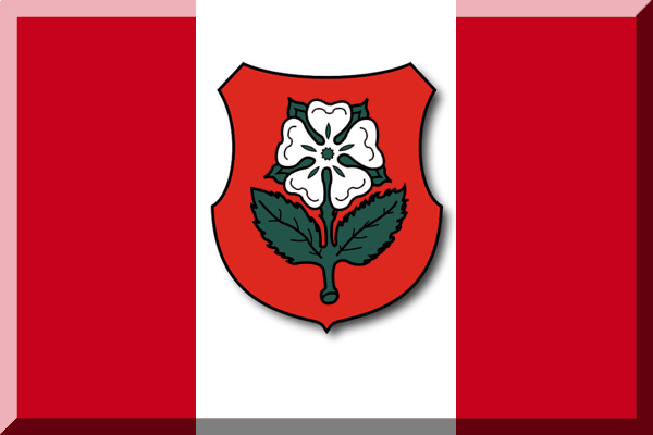 A fantasy football flag Warning! This flag, as well as other fake sports flags, is fictitious and is useful only to facilitate visual identification of some articles within Wikipedia. This flag has some visual elements that are similar to official logos or coats of arms of certain clubs, such as colors or some symbol, but they are NOT official and don't have any direct relation to the crest, symbol or official flag of the club. Thus, even if you consider this symbol to be reminiscent of some elements of the club, this image does NOT correspond, and is not even similar to the official symbol. Official symbols must not exist in Commons because they are protected by authorial rights (copyright); in this way, if you want to localize the club's symbol, crest or official flag, try to make contact with the club: ask for the official symbol and a possible license of use for your purpose. Note to Wikipedians: use this flag only in a very small size, only to visually facilitate the identity of a club within a context that has several clubs together. To use it in a normal or large size may cause the reader to misunderstand. Moreover, you should use the flag only if it's clear at 20px, which is the size the flags have on many wikiprojects about soccer.